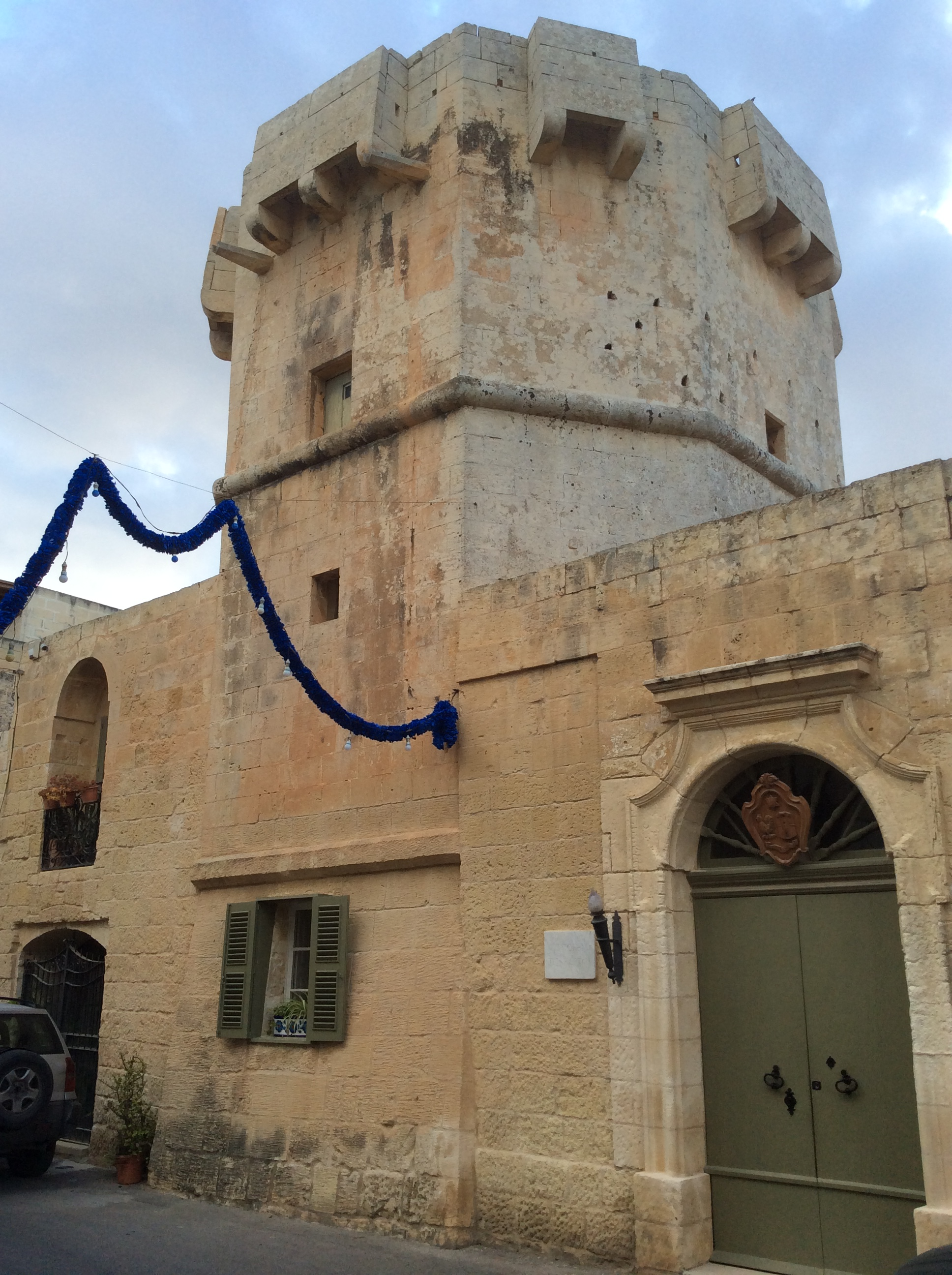 Qrendi Tower - Torre Cavalieri This media is about Maltese cultural property with inventory number 01429.